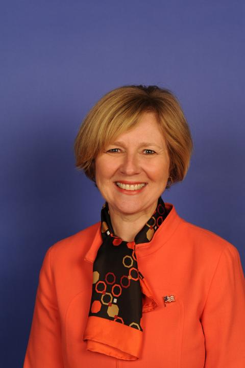 Representative Susan Brooks